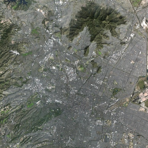 Mexico by SPOT Satellite